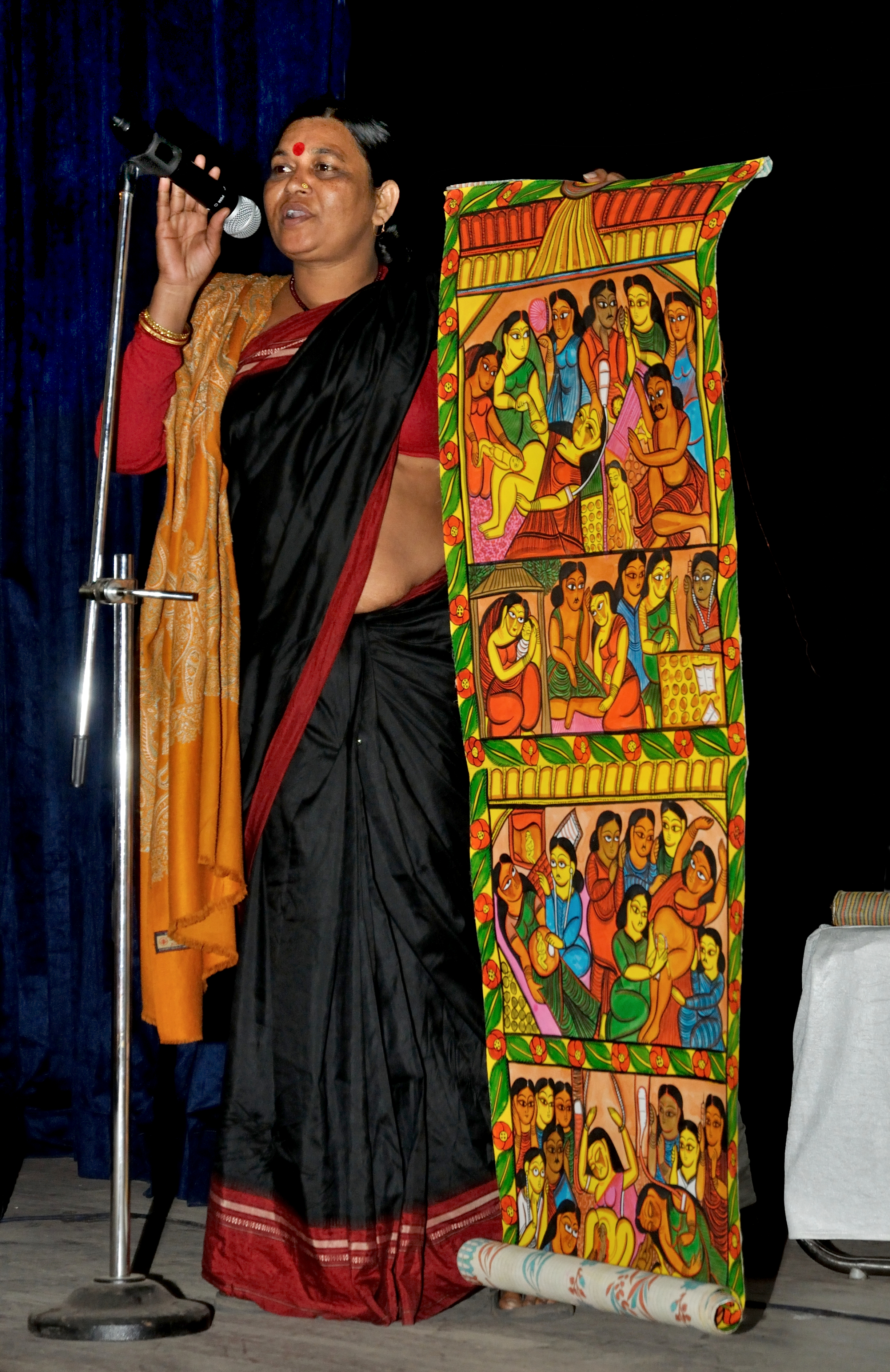 This photograph has been taken during an international conference and intensive seminar on 'Strategic Transformations: Museums in 21st Century' that organised by the National Council of Science Museums, India in collaboration with Indian Museum, Kolkata, National Museum, New Delhi (Ministry of Culture Govt. of India) and Indian National Committee of ICOM. It was held at Ashutosh Birth Centenary Hall, Indian Museum, Kolkata on 14 February, 2014.